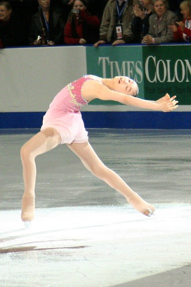 Kim Yu-Na performs an Ina Bauer during her "Reflection" exhibition at the 2006 Skate Canada International.